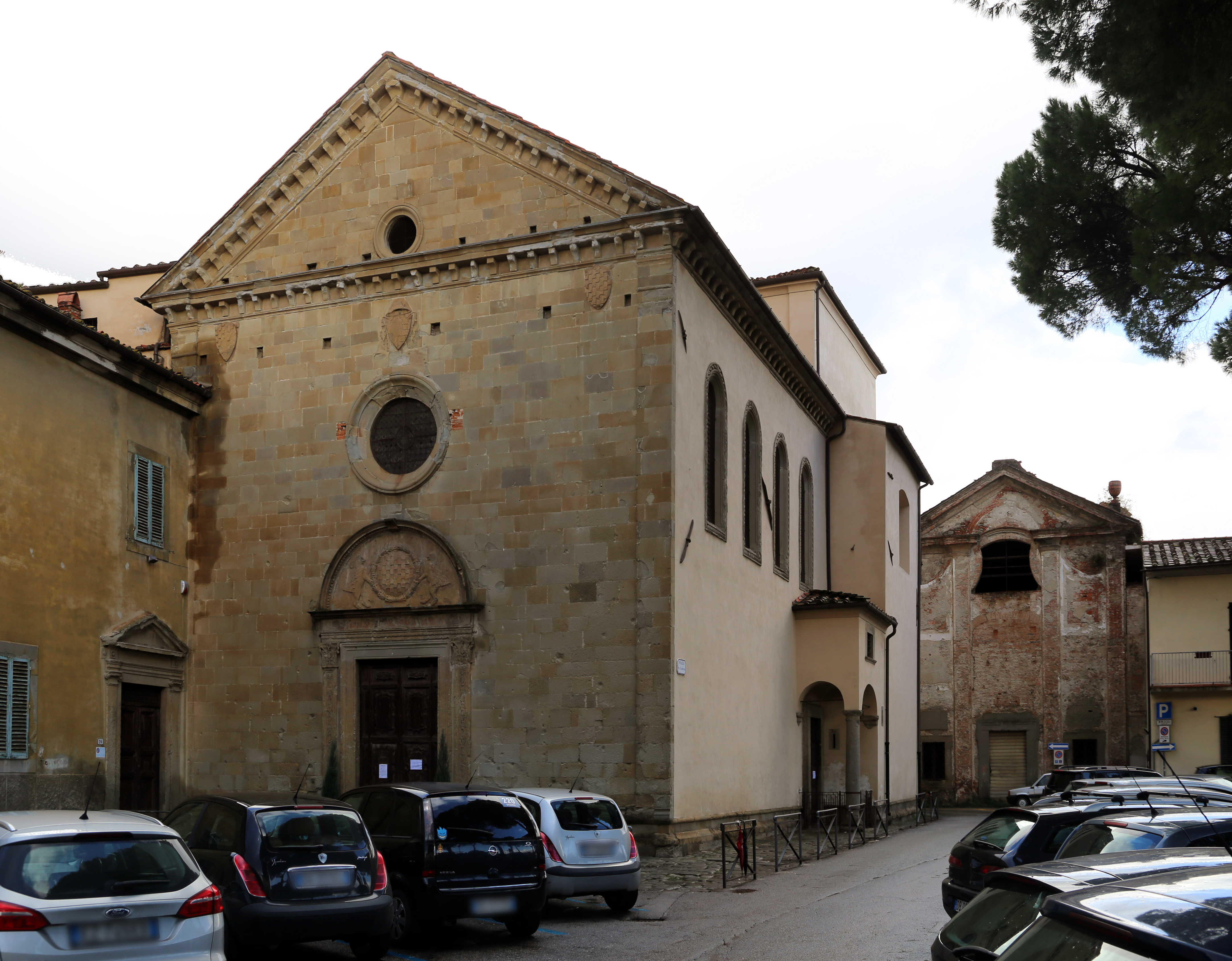 Churches in Pistoia